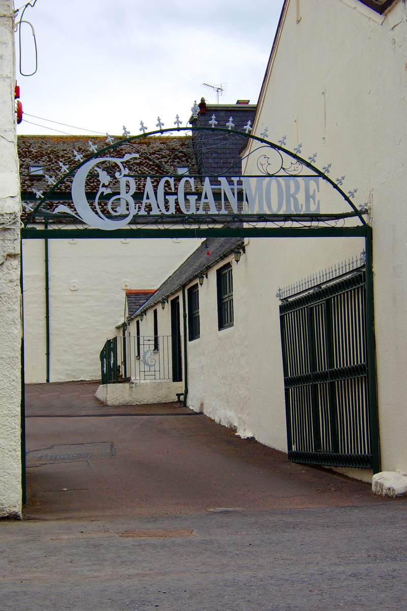 Cragganmore distillery near Ballindalloch in Banffshire, Scotland